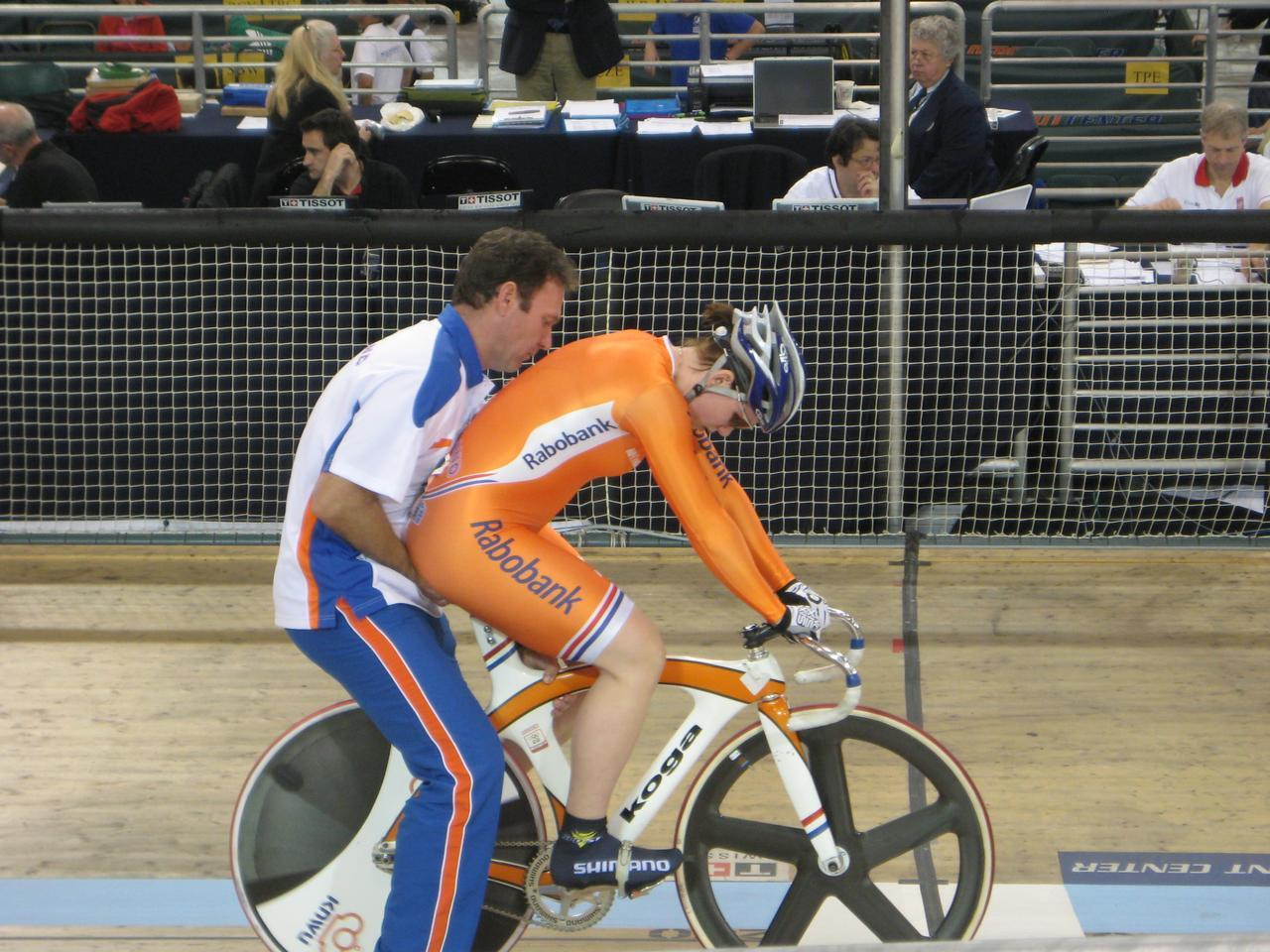 Willy Kanis at World Cup, Los Angeles (Carson, California), 28 Jan 2008.